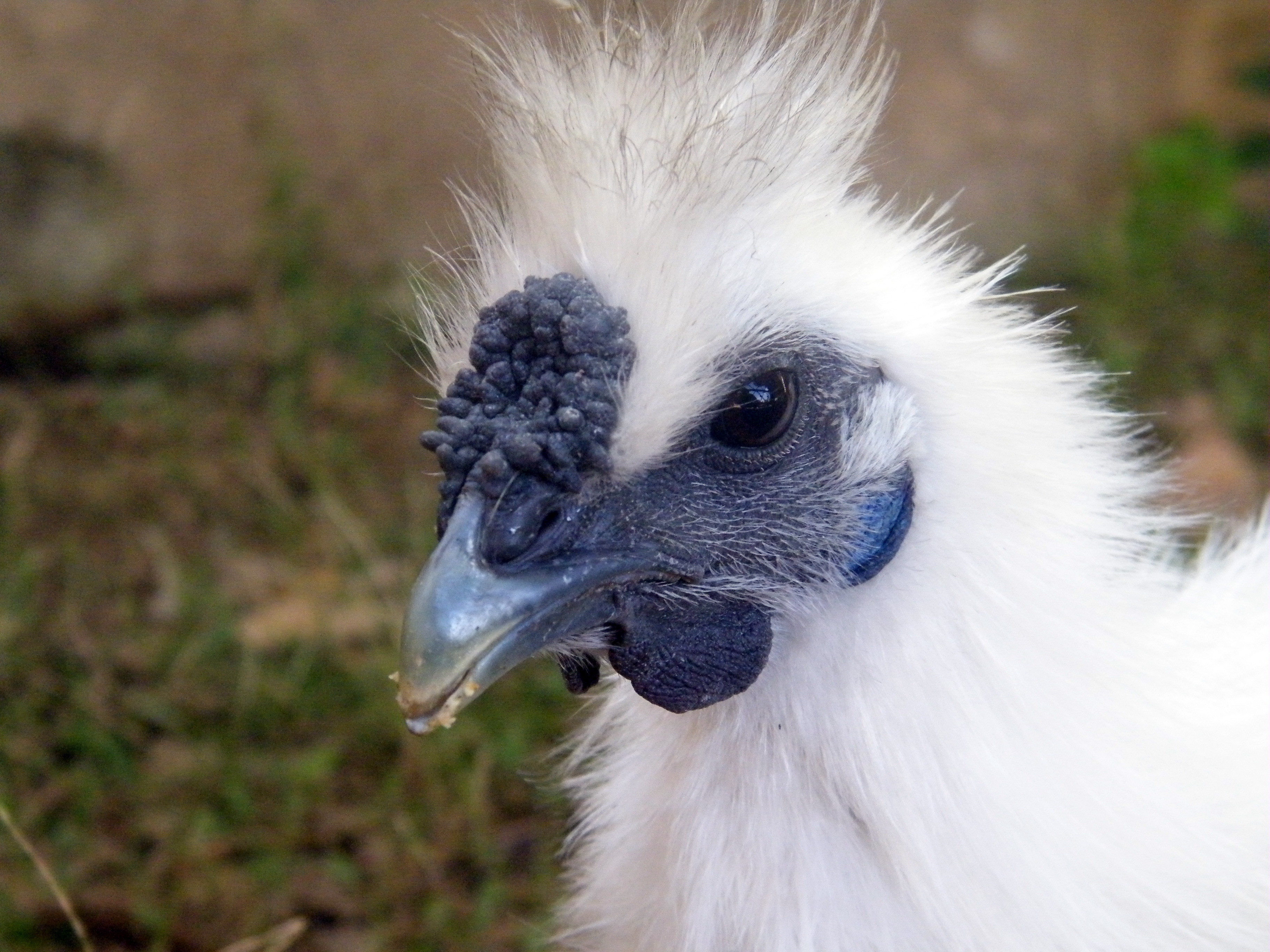 picture of Silkie